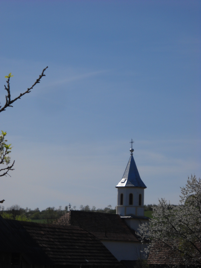 The Orthodox Church